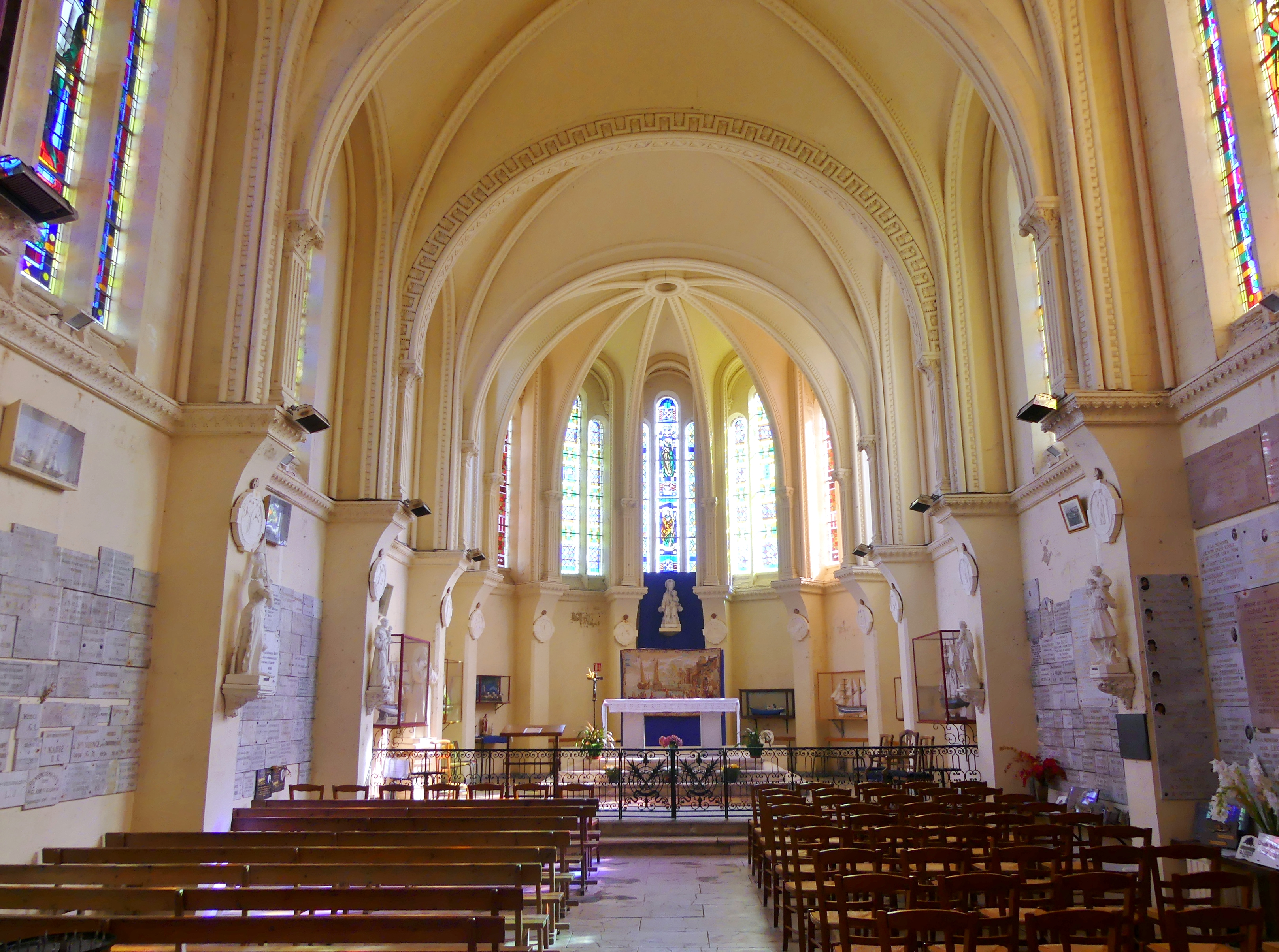 Inside sight of Notre-Dame de Bonsecours church, dedicated to seamen lost in the sea (plates on the walls), in Dieppe, Normandy, France.